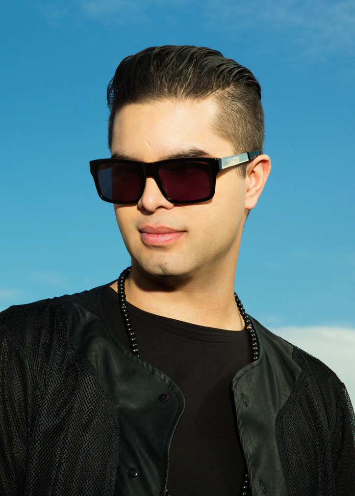 Ephwurd: Datsik and Bais Haus